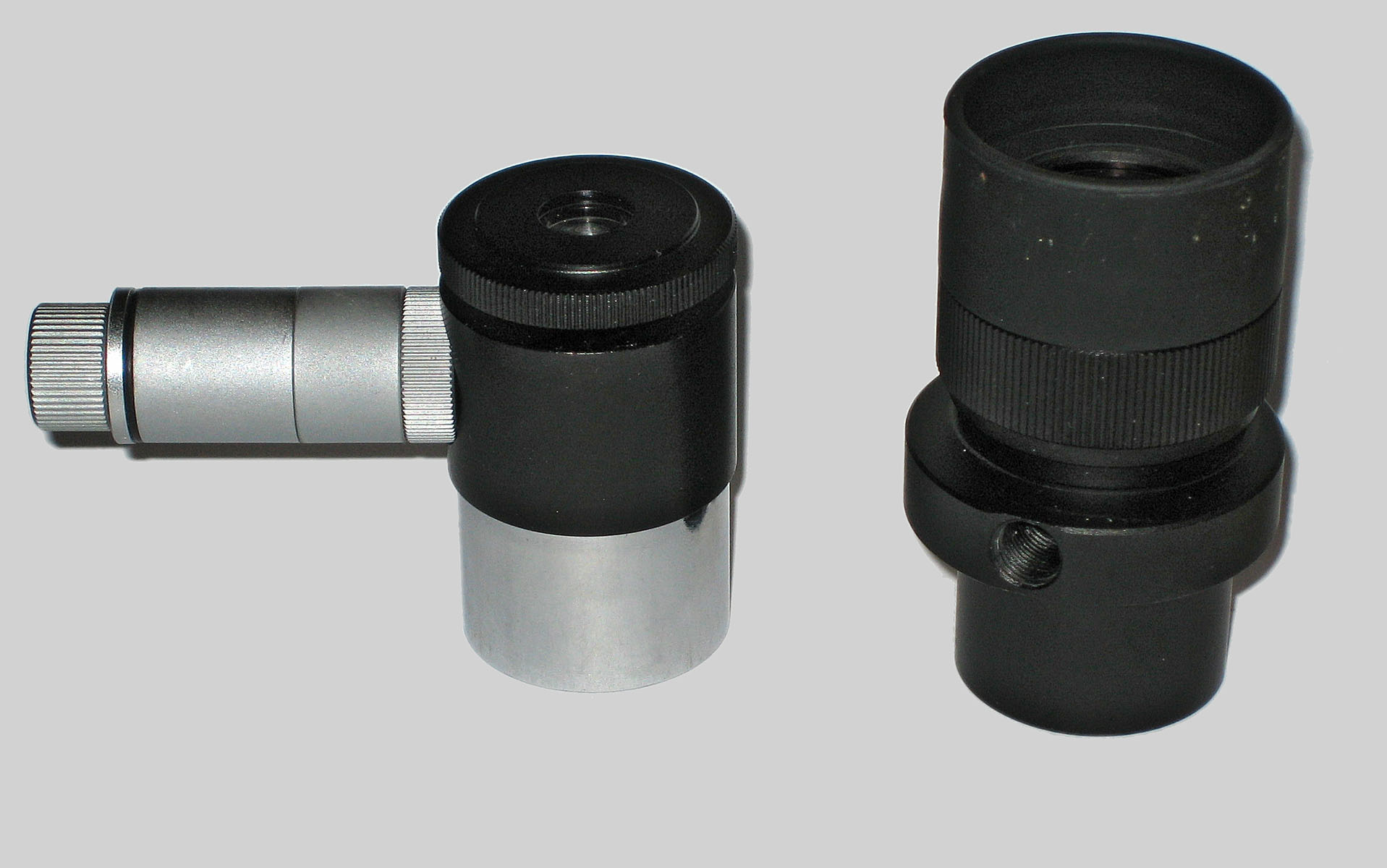 Two different eyepieces with a haircross and a illumination